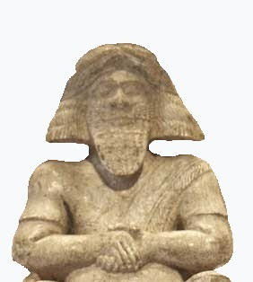 hazael cropped